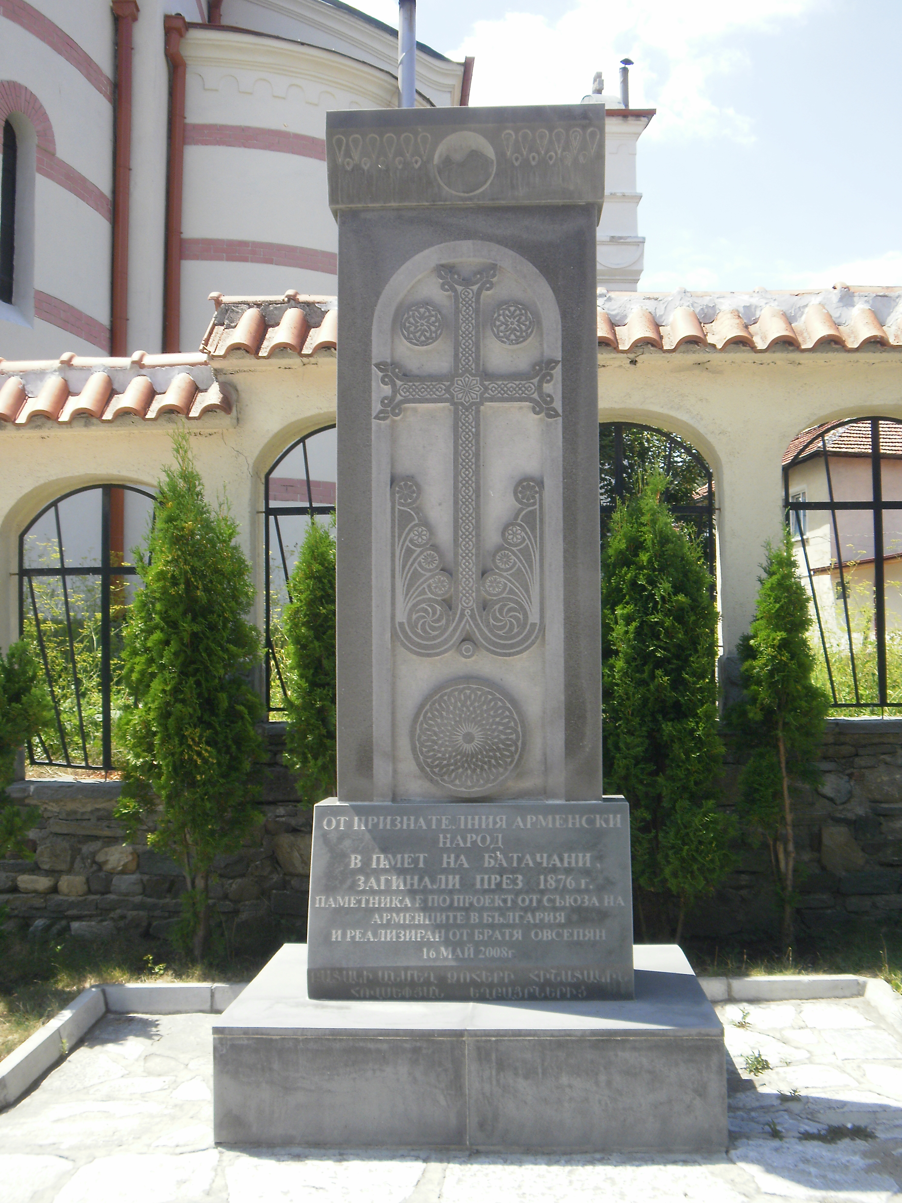 Batak massacre 1876 monument, Batak, Bulgaria.